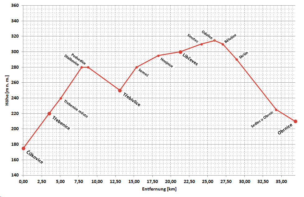 simplified altitude-profile of railway track Čížkovice–Obrnice